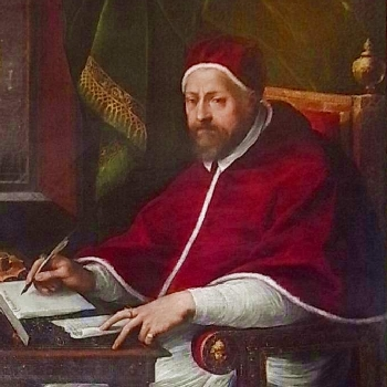 Pope Clement VIII